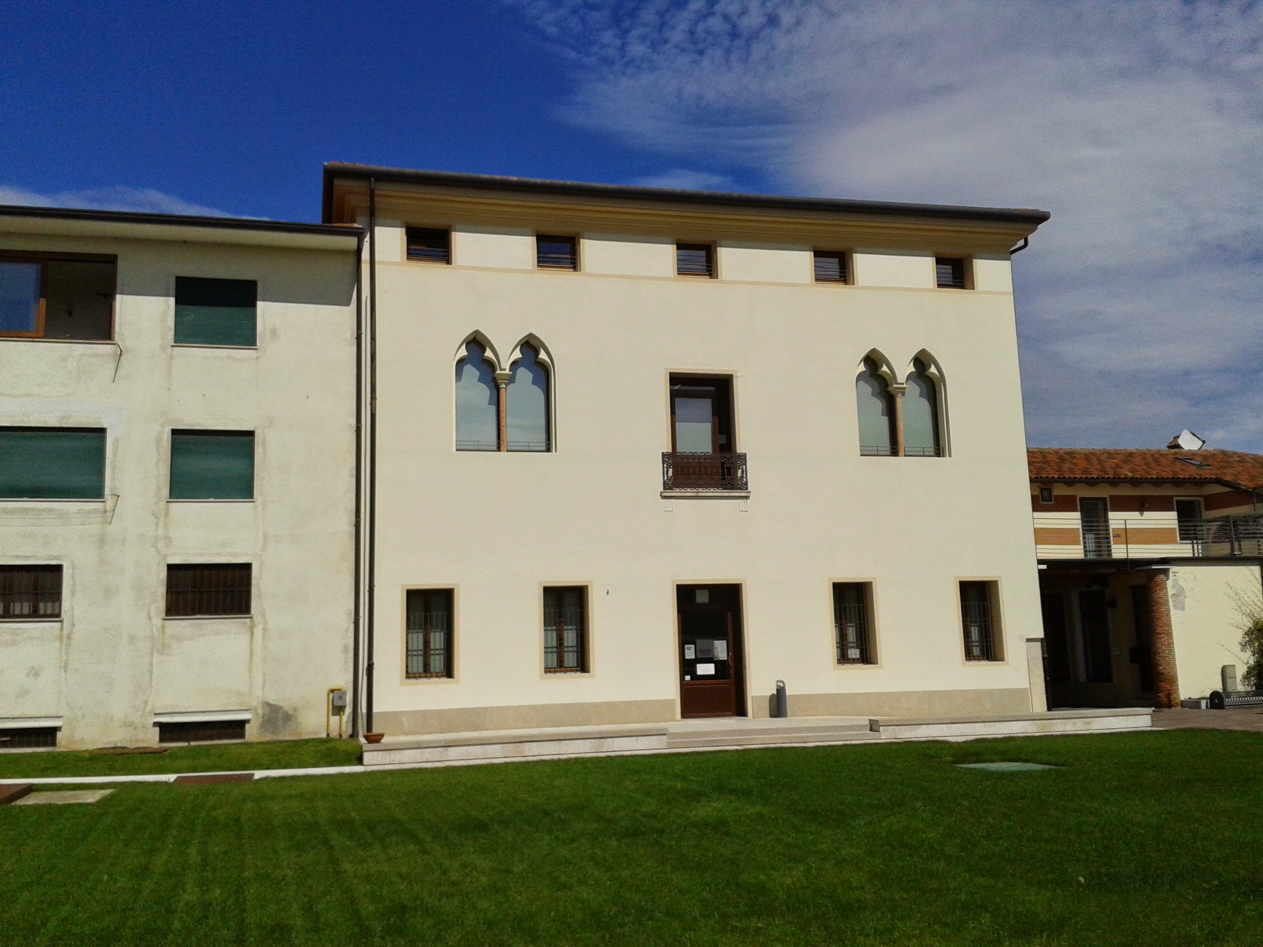 Casale Dolfin Palace in Rosà